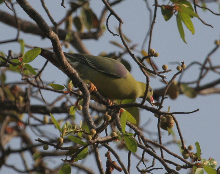 African Green Pigeon in fruit-bearing wild fig (Ficus) in western Gambia. (Note: An incorrect binomial name appears in the title, a mistake I made when uploading it to the Commons.)